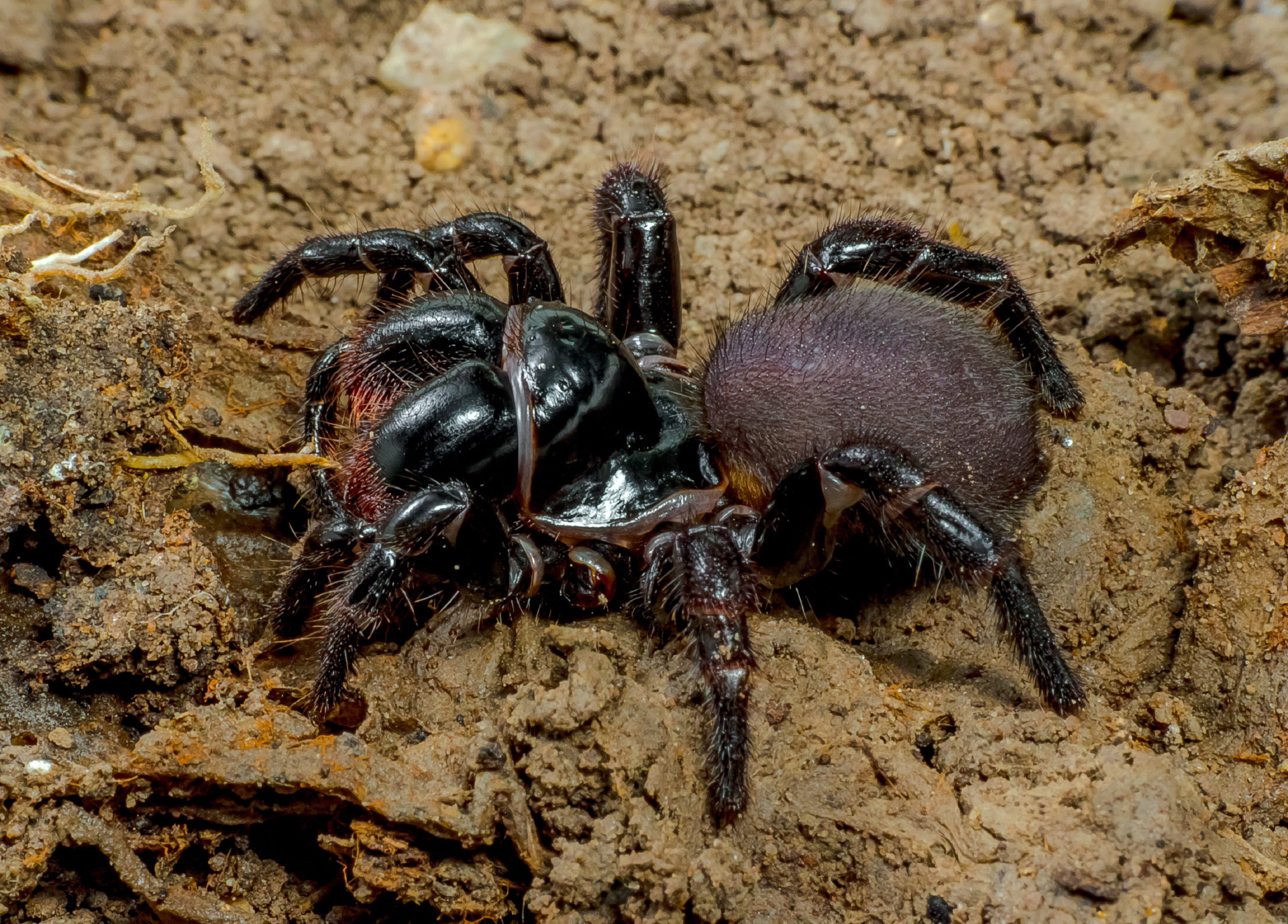 Mygalomorphae Actinopodidae Missulena bradleyi Paten Road, The Gap, Brisbane Collected: Raven & Whyte Photo: Robert Whyte